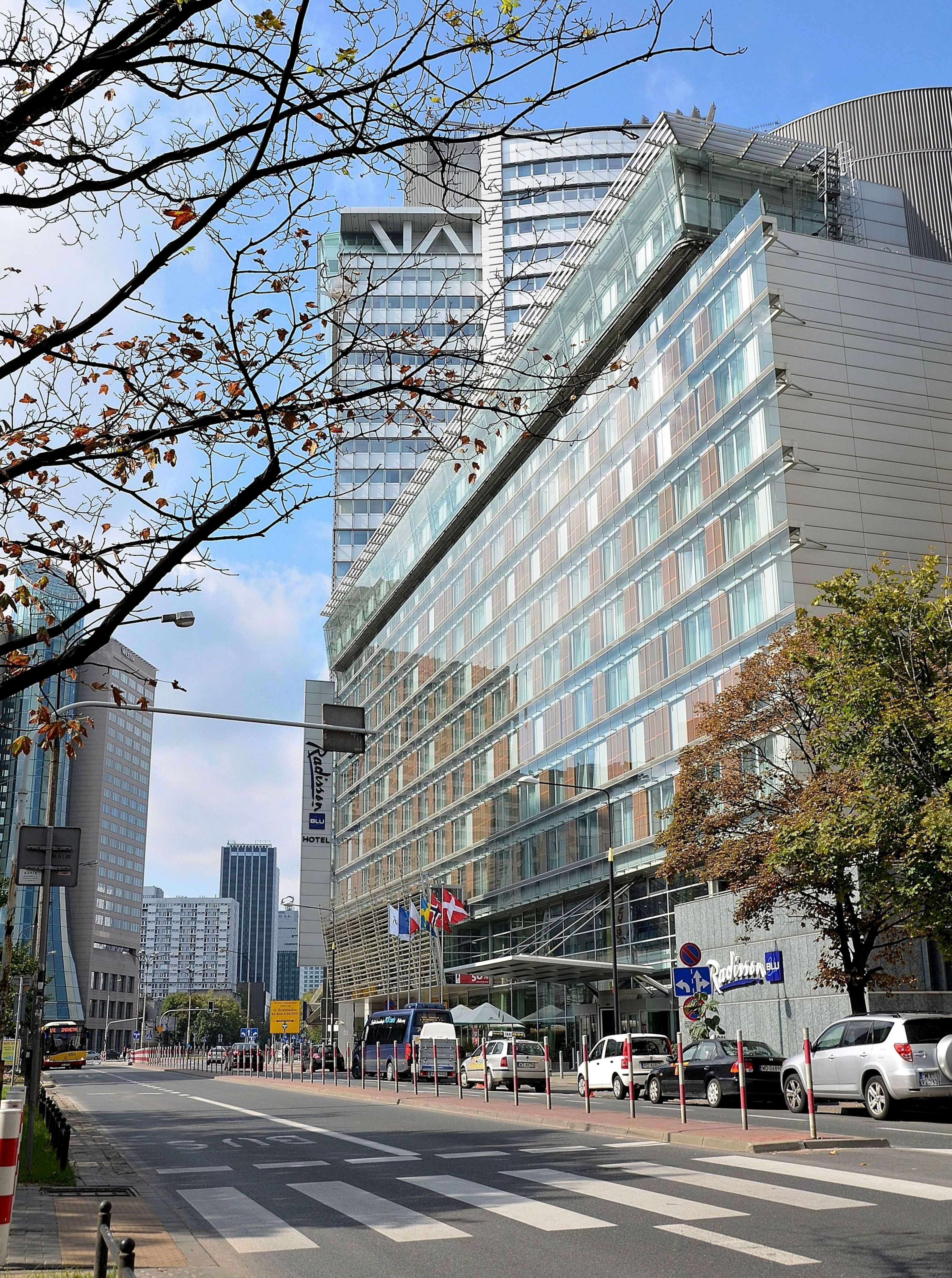 Grzybowska Street in Warsaw near Radisson Blu Centrum Hotel (view to the west)